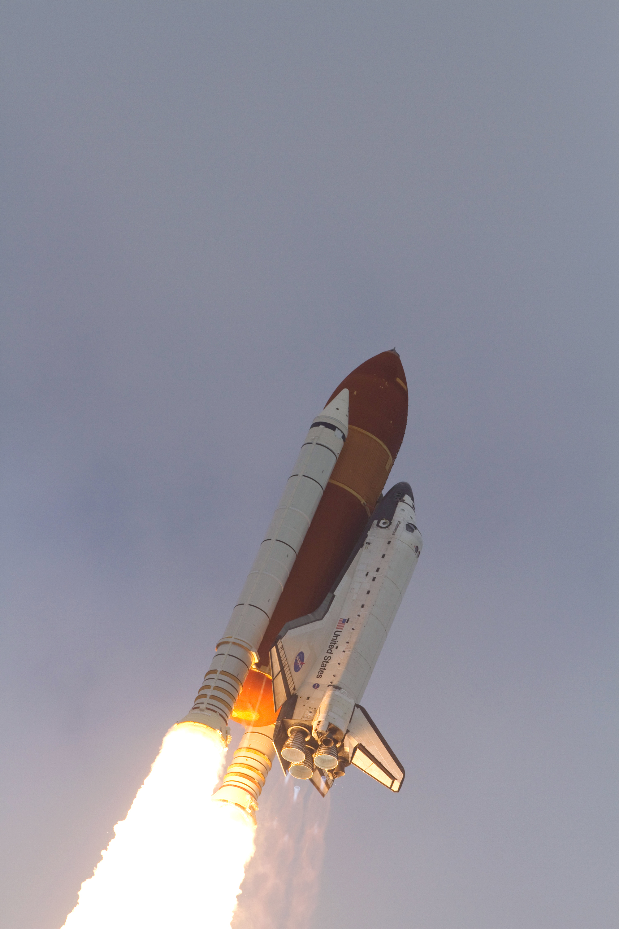 CAPE CANAVERAL, Fla. -- Rising on twin columns of fire, space shuttle Endeavour lifts off from Launch Pad 39A at NASA's Kennedy Space Center in Florida beginning its final flight, the STS-134 mission, to the International Space Station. Launch was on time at 8:56 a.m. EDT on May 16. STS-134 and its six-member crew will deliver the Alpha Magnetic Spectrometer-2 (AMS), Express Logistics Carrier-3, a high-pressure gas tank and additional spare parts for the Dextre robotic helper to the space station. Endeavour's first launch attempt on April 29 was scrubbed because of an issue associated with a faulty power distribution box called the aft load control assembly-2 (ALCA-2).